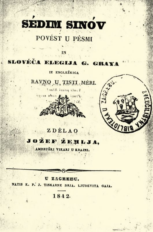 Front cover of the book Sédim sinóv written by Jožef Žemlja in Zagreb